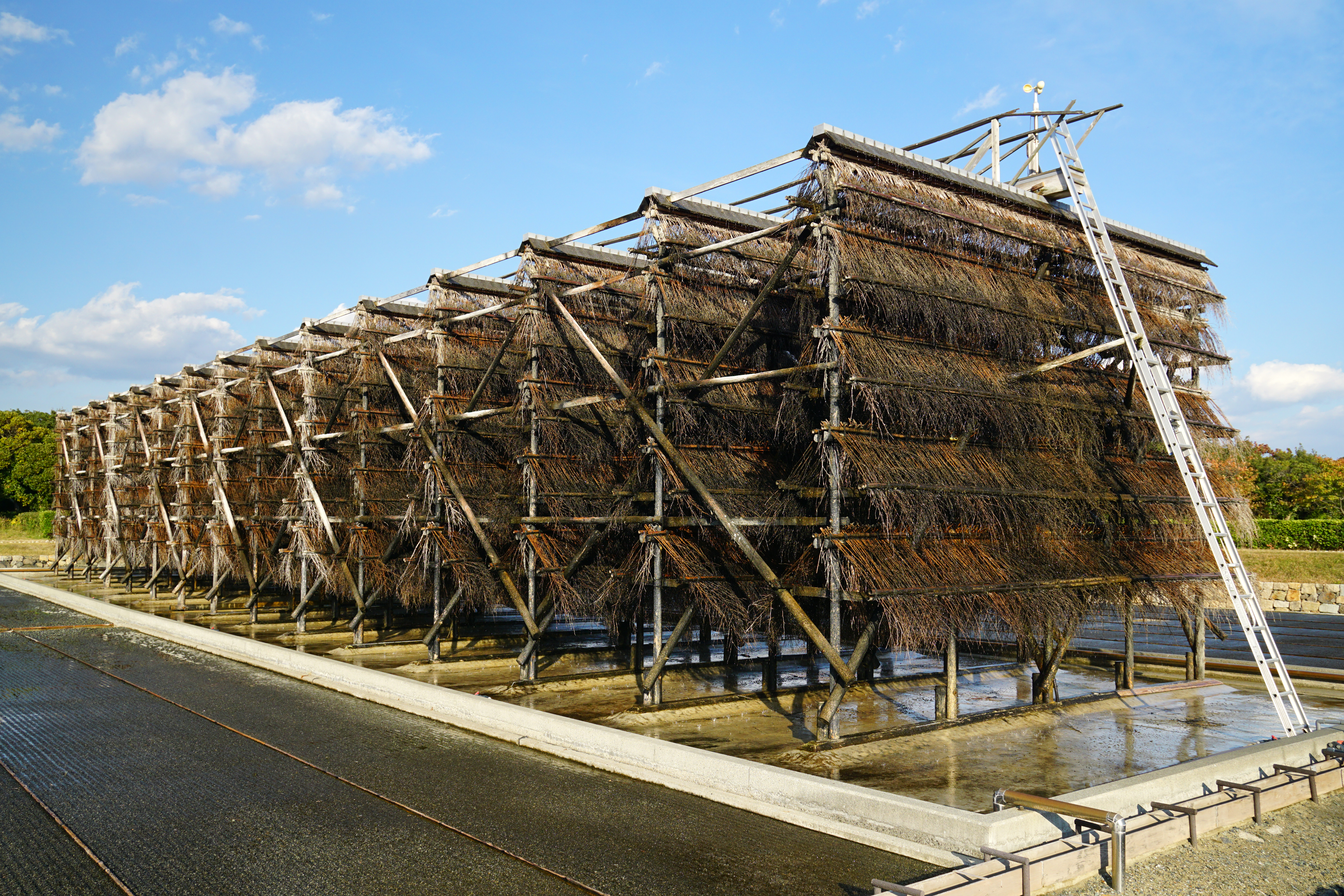 Ako Marine Science Museum in Ako, Hyogo prefecture, Japan.